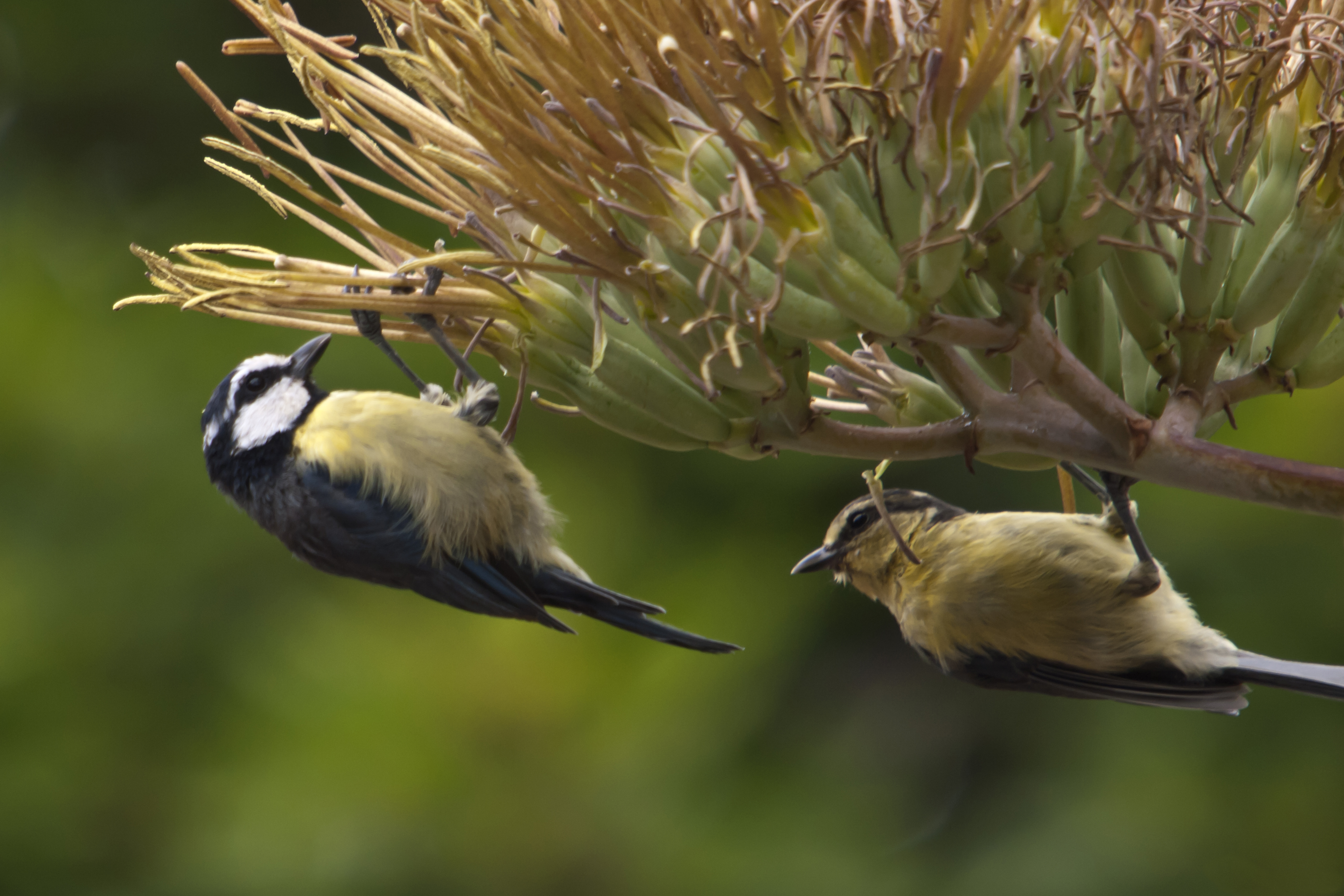 Two Canary Island Blue Tits in Las Palmas, Gran Canaria, Canary Islands, Spain. Adult on left and juvenile on right